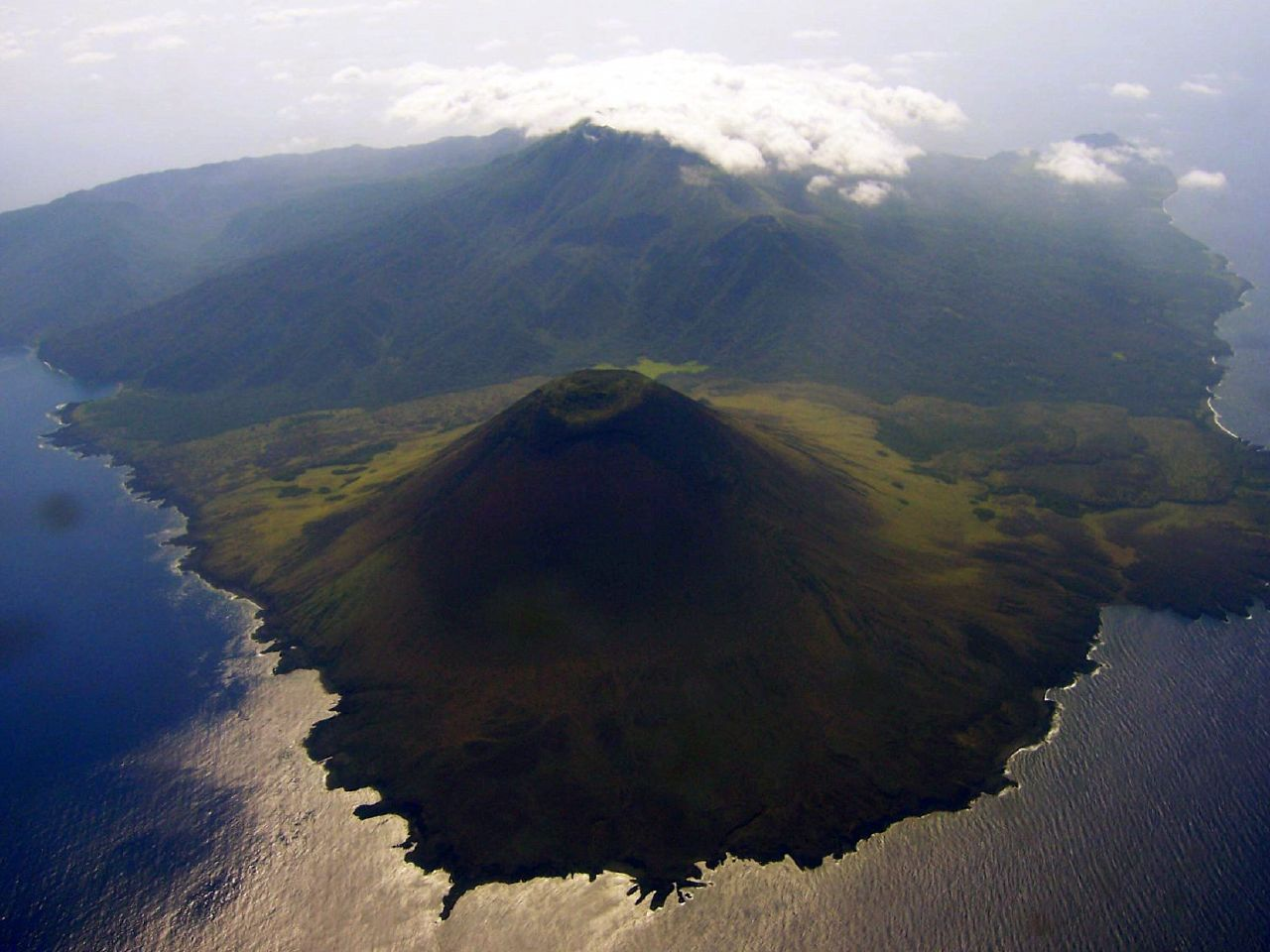 Smith Volcano (aka Mount Babuyan) on Babuyan Island, is one of the two volcanoes in the Babuyan Islands. This cone-shaped volcano has a height of about 688 meters above sea level.[1] Note: The photographer has mistaken this for the Didicas Volcano, which is also in the Babuyan Islands.